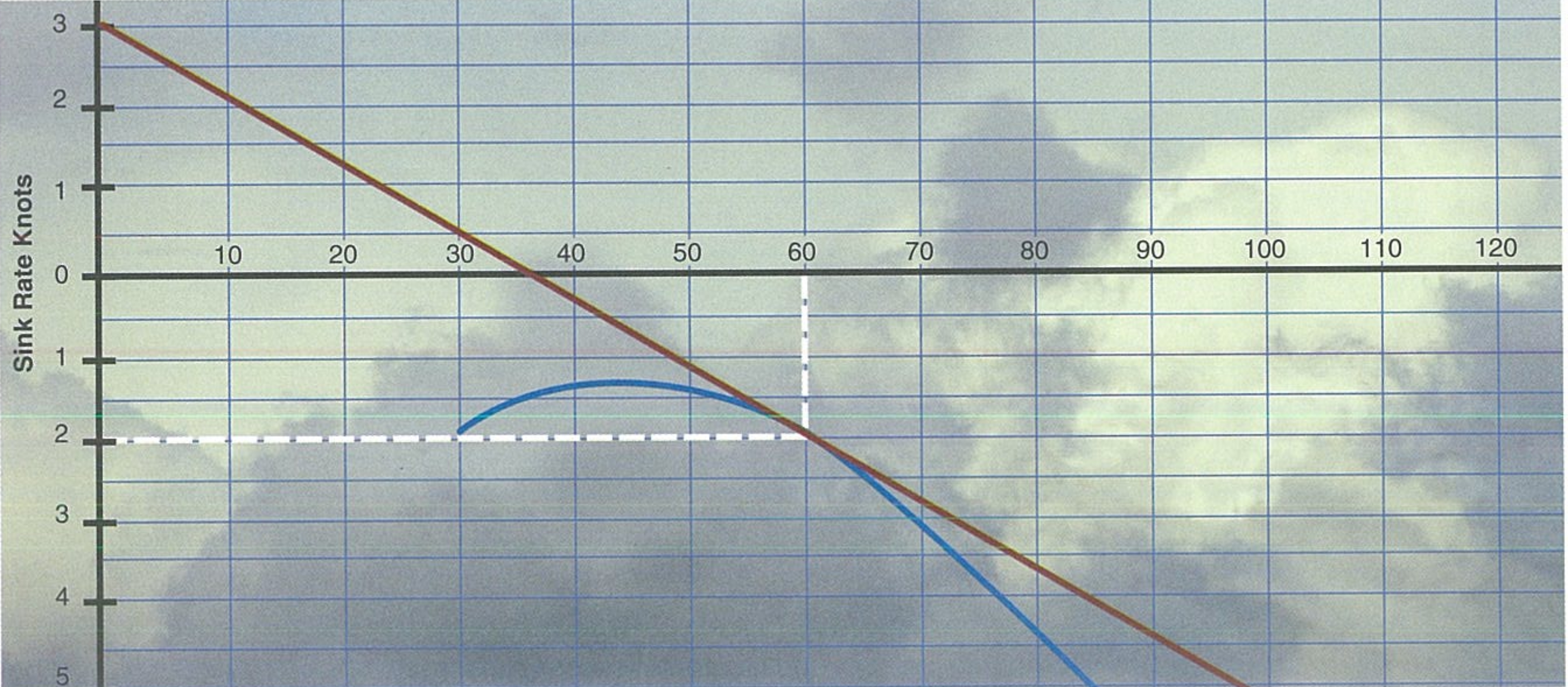 Computation of the best gliding ratio speed in sink